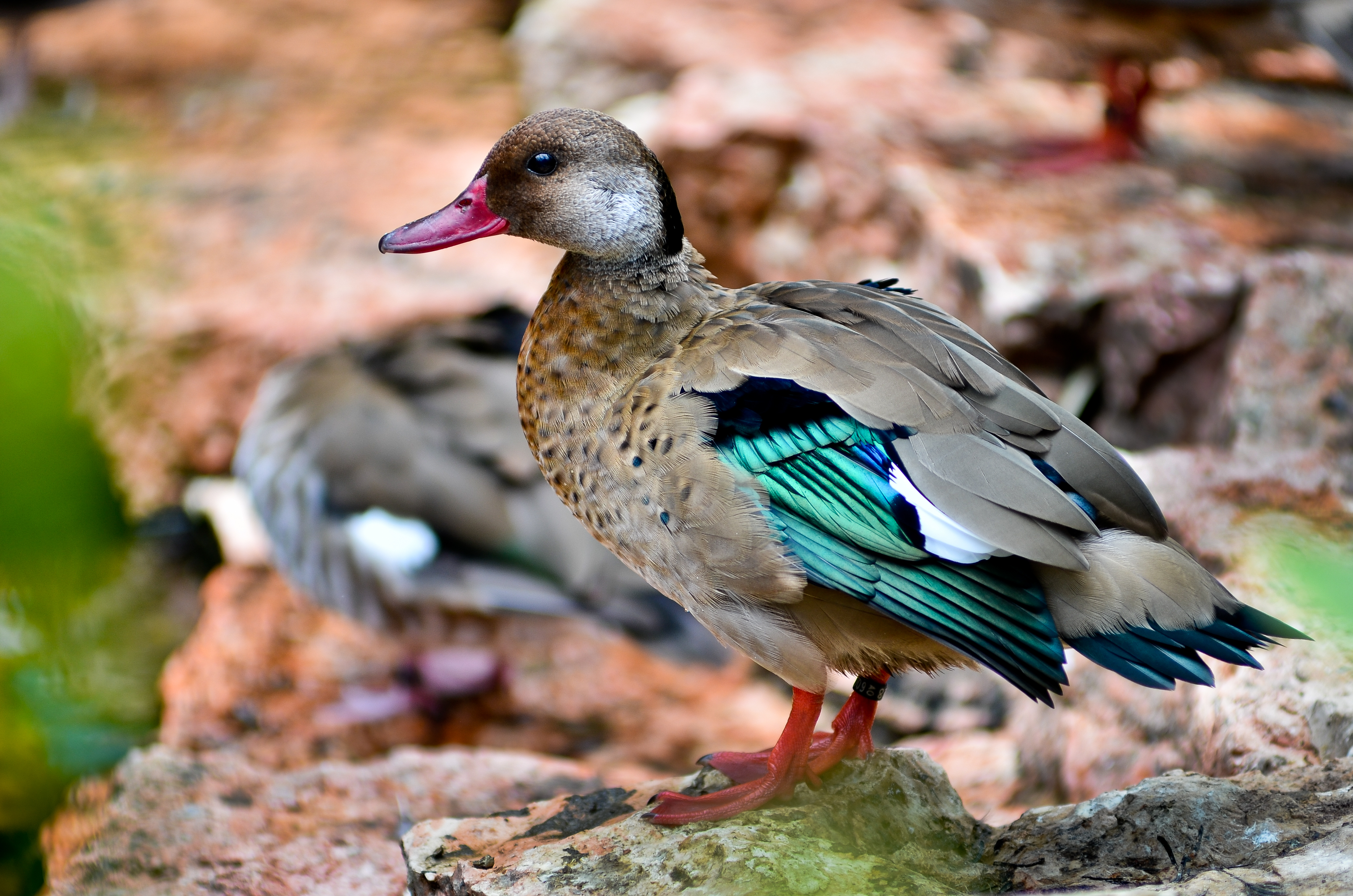 Brazilian Teal (Amazonetta brasiliensis) at Weltvogelpark Walsrode (Walsrode Bird Park, Germany)